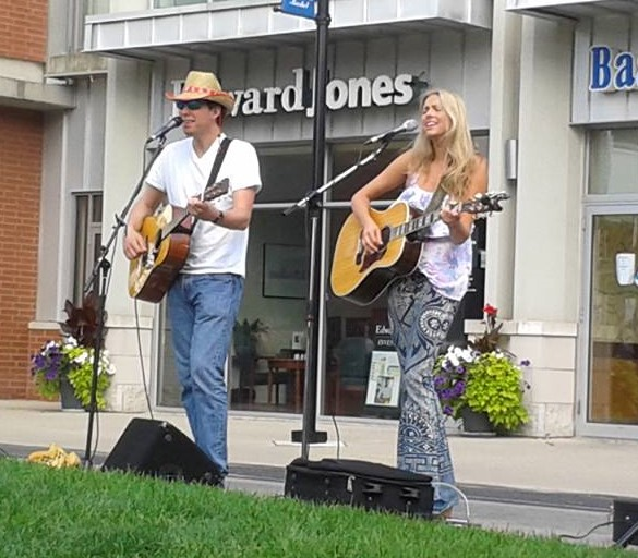 Kate Todd performing in Port Credit August 3 2013